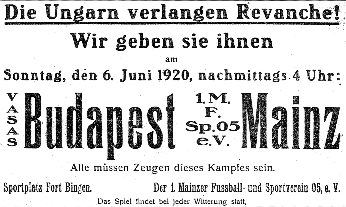 Leaflet for a private (soccer) football match of Mainz 05 versus Vasas Budapest